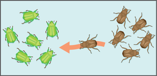 Gene flow can occur when an individual travels from one geographic location to another.